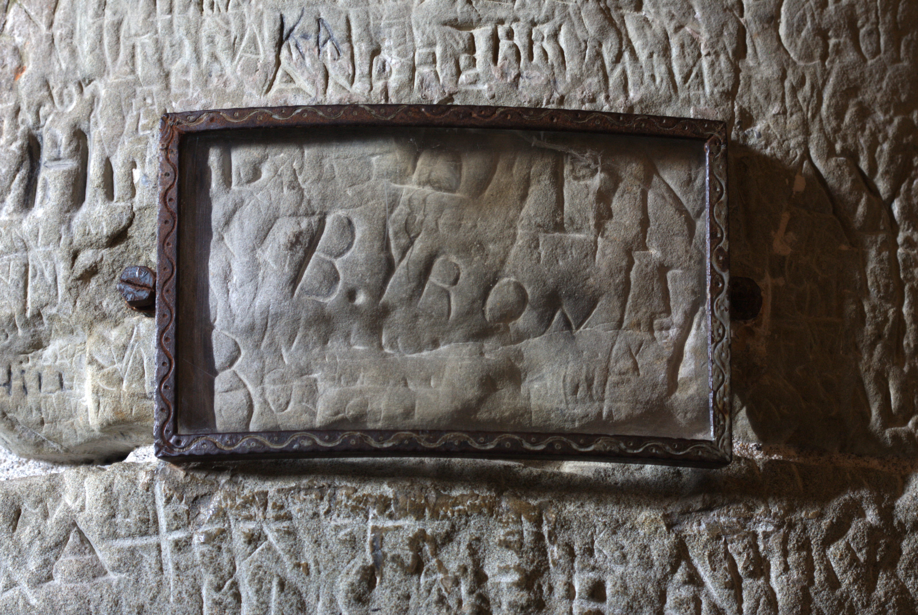 Château de Chillon